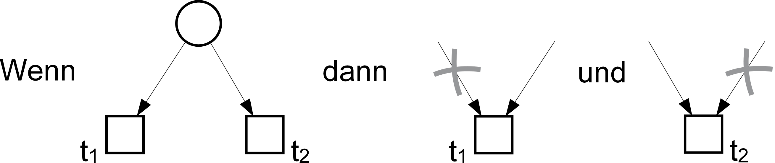 petri net example 7